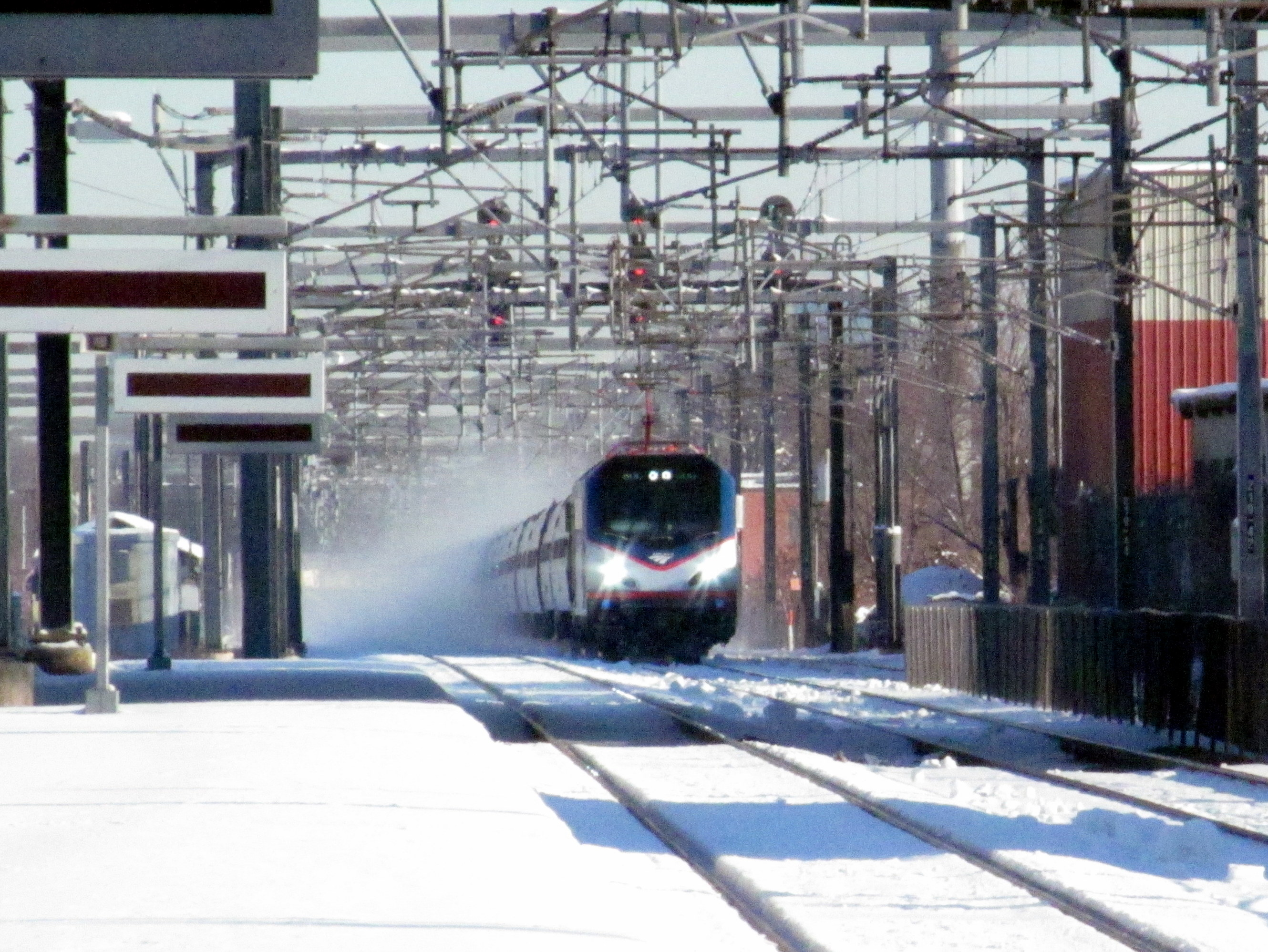 ACS-64 #600 leads southbound Northeast Regional #171 through Readville on its first revenue run on February 7, 2014.